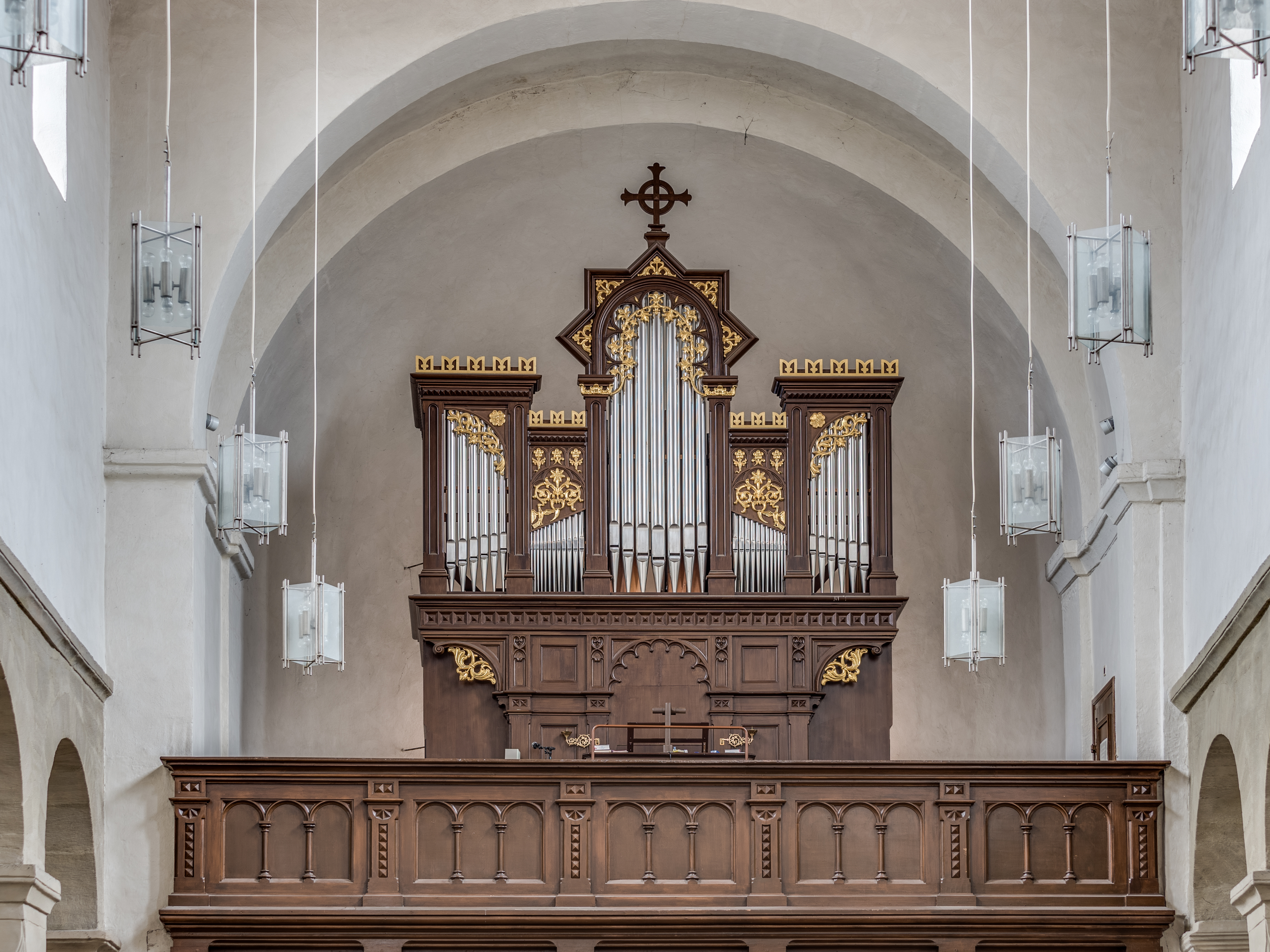 Organ in the parish church Sankt Jakob in Bamberg